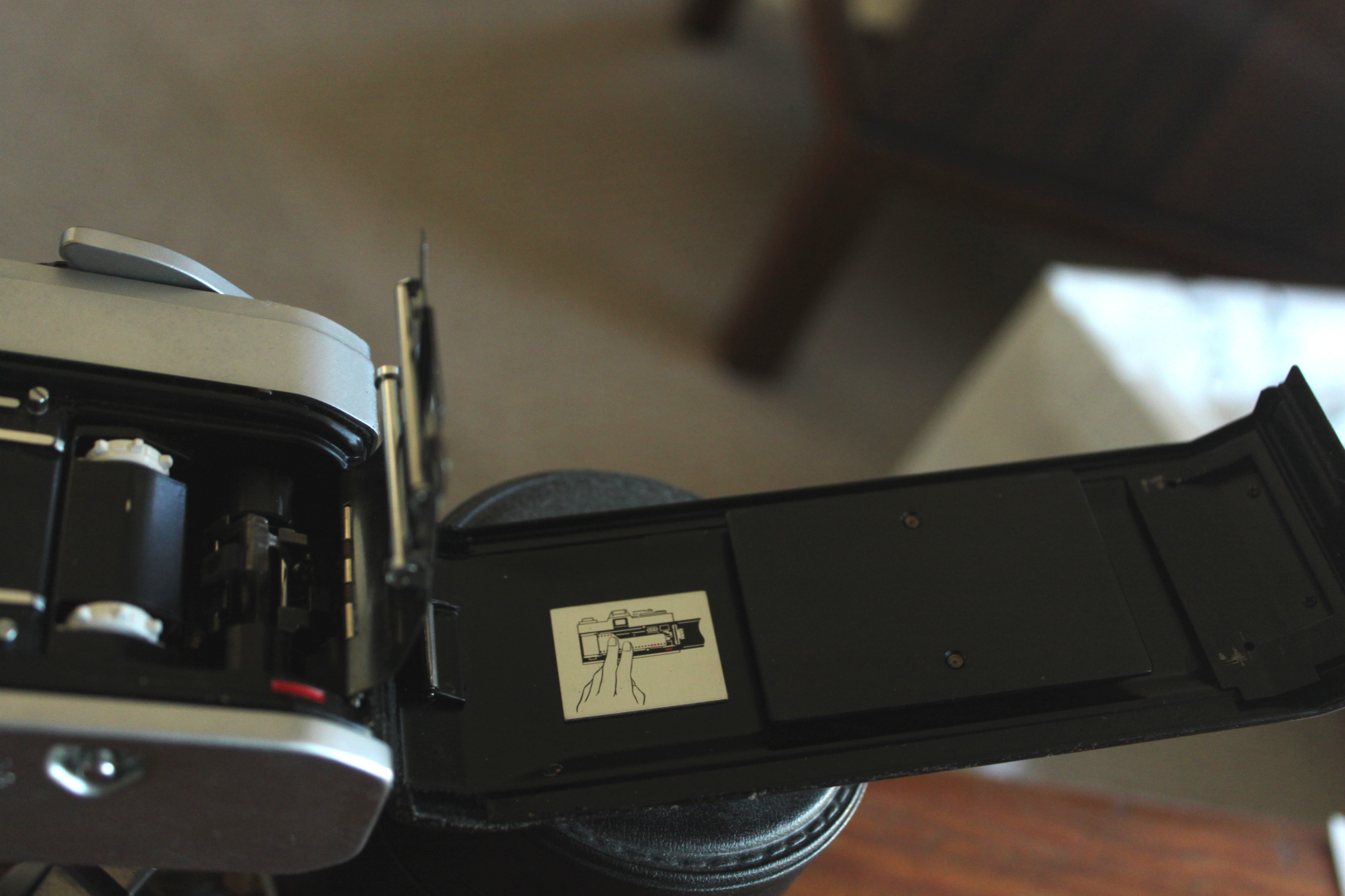 View of Canon QL 'quickload' system